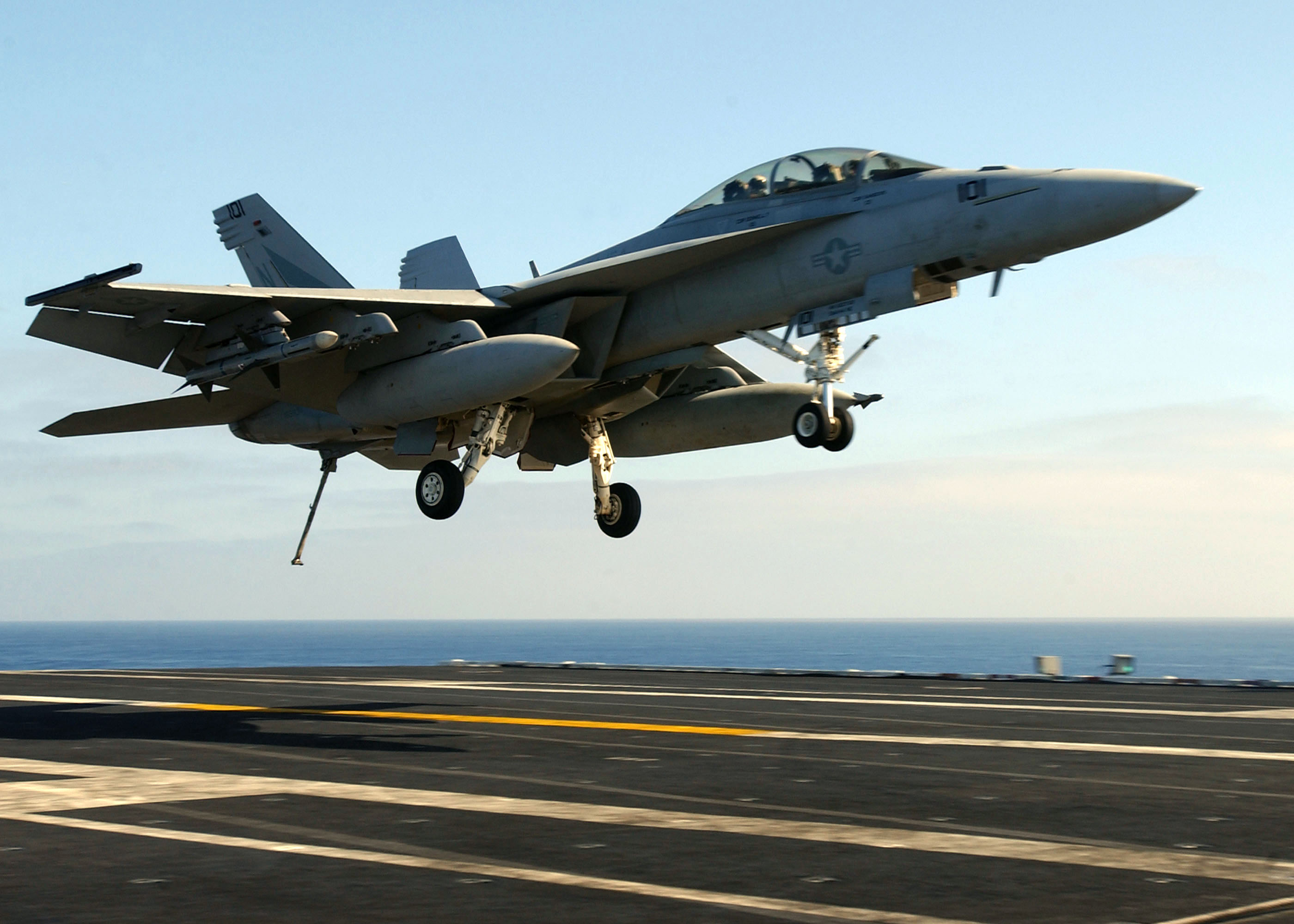 A U.S. Navy McDonnell Douglas F/A-18F Super Hornet assigned to strike-fighter squadron VFA-154 Black Knights landing on the aircraft carrier USS John C. Stennis (CVN-74), on 23 June 2006. The Stennis and the assigned Carrier Air Wing Nine (CVW-9) were conducting a "Tailored Ship's Training Availability" (TSTA) off the coast of Southern California (USA).